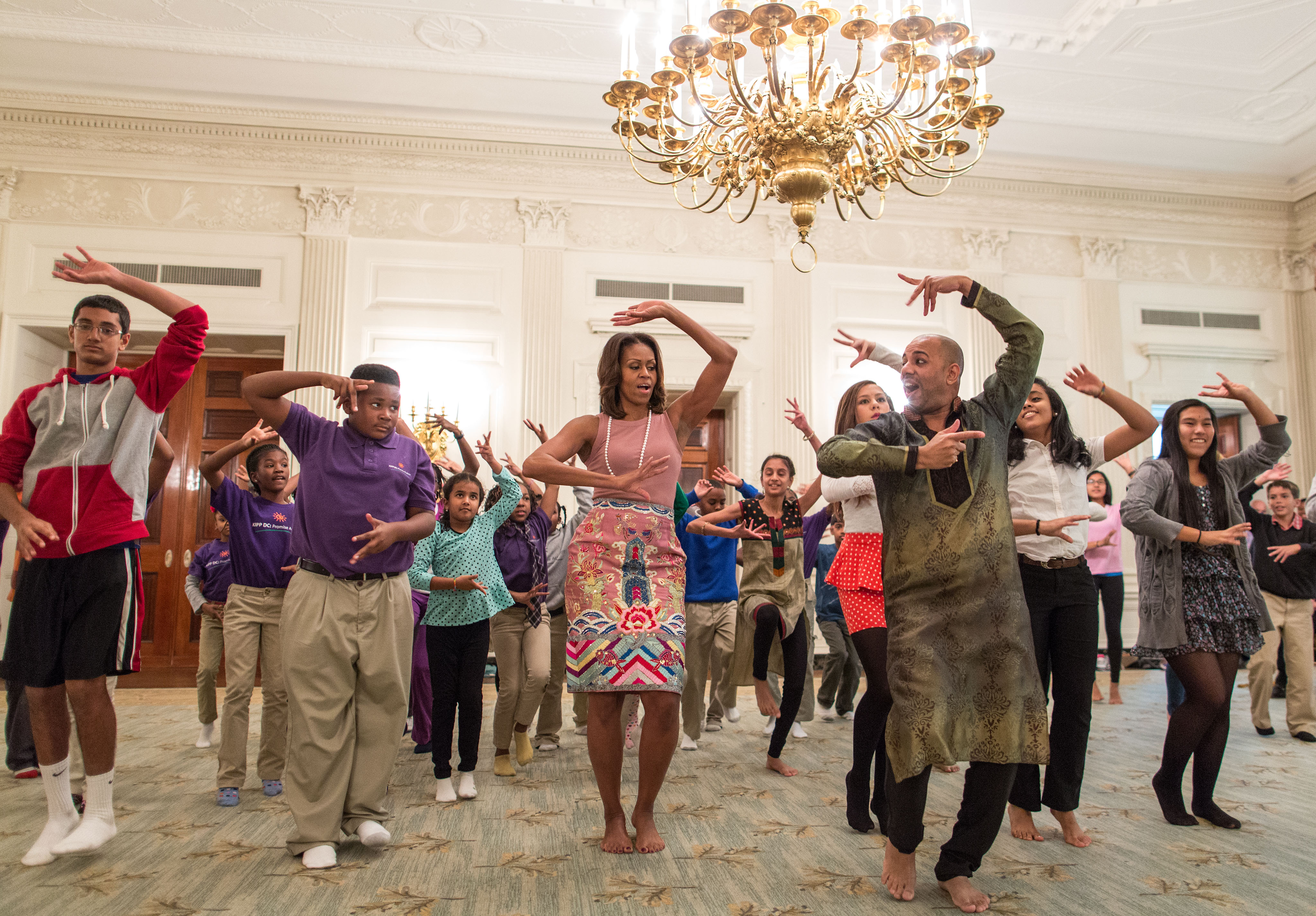 First Lady Michelle Obama joins students for a Bollywood Dance Clinic in the State Dining Room of the White House, Nov. 5, 2013. (Official White House Photo by Chuck Kennedy)